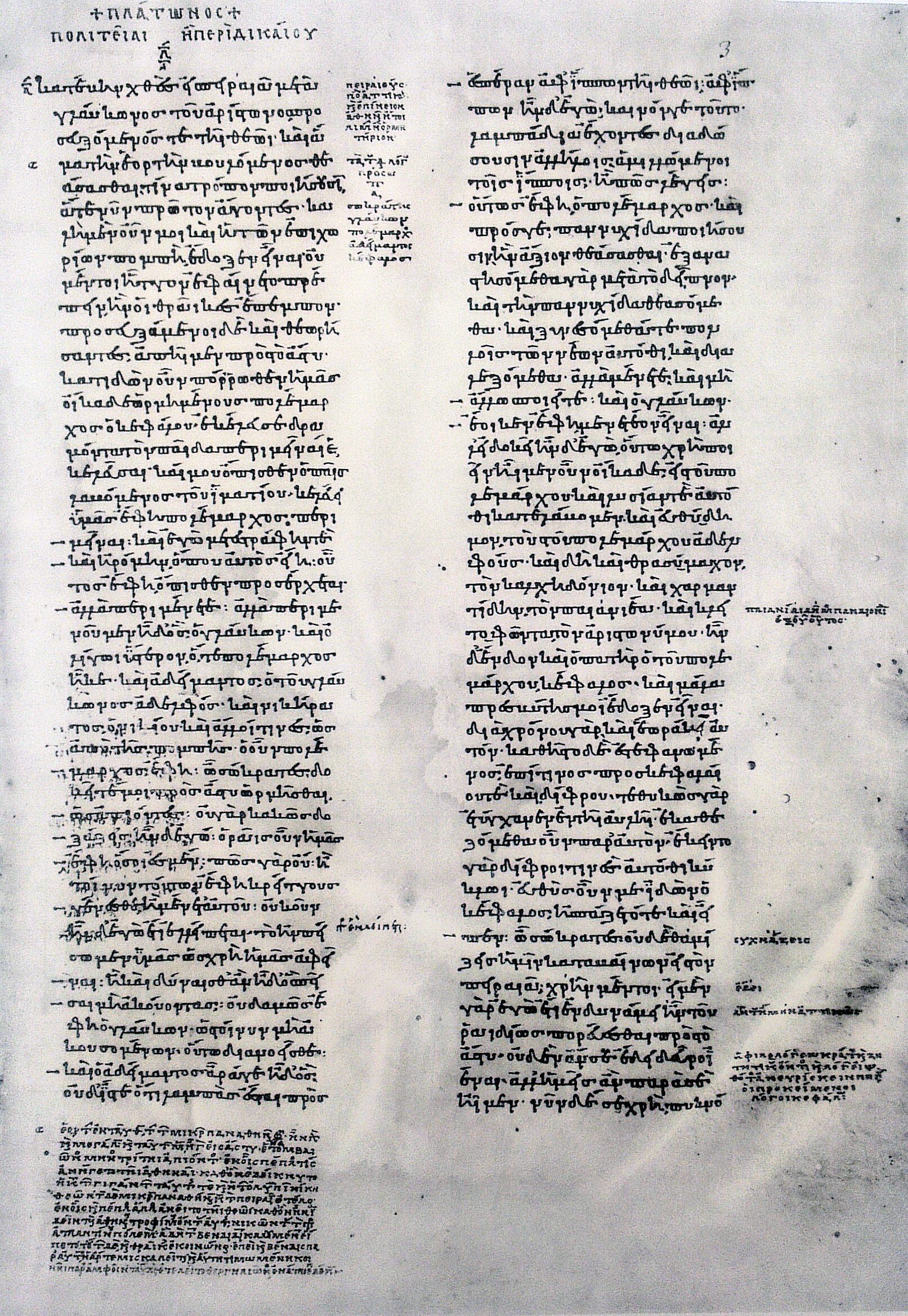 Page of the Codex Parisinus graecus 1807. Dialogue Politeia.